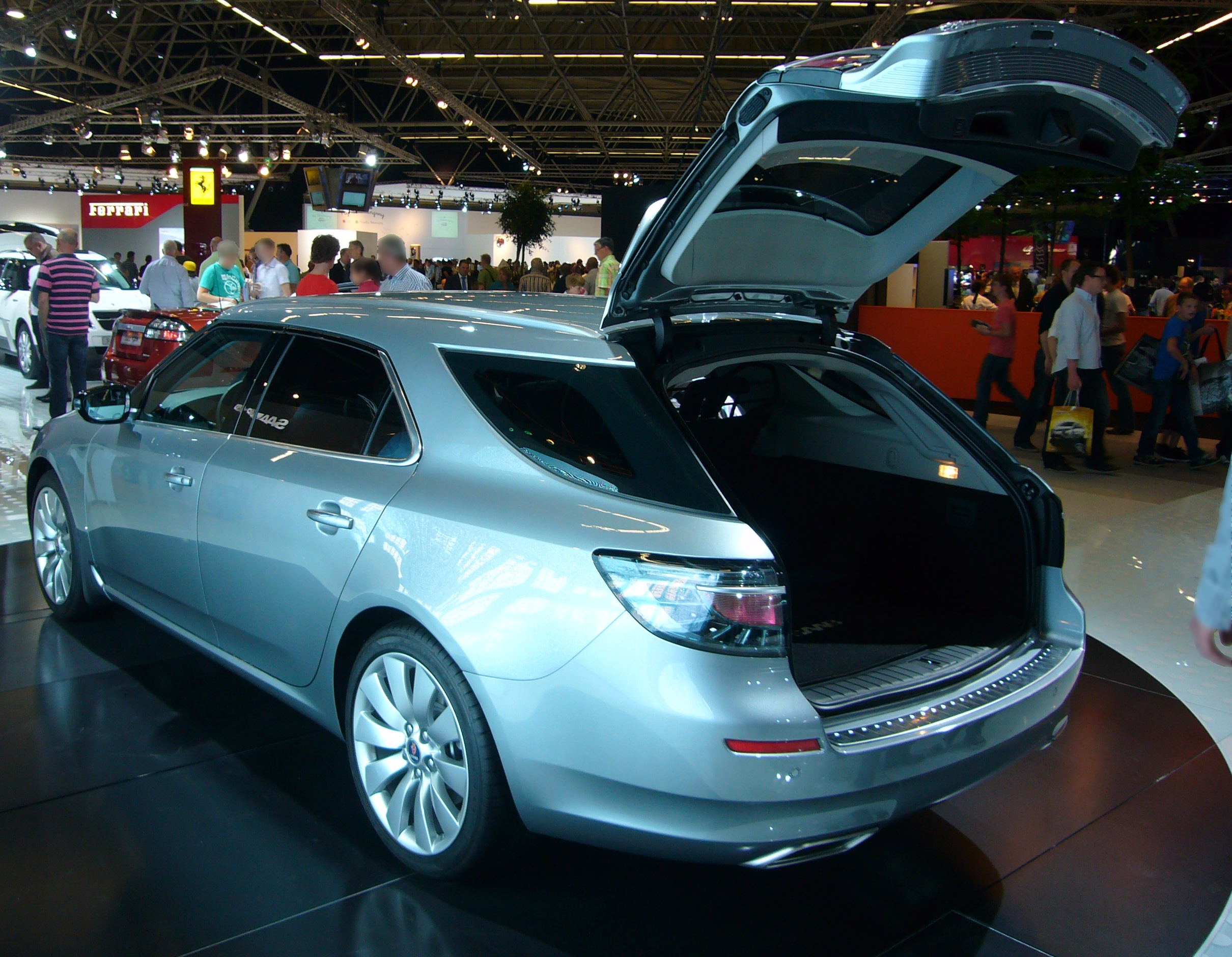 Saab 9-5 SportCombi at AutoRAI Amsterdam 2011